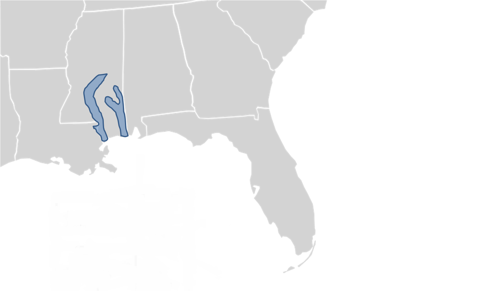 Combined range map of the Pascagoula Map Turtle (Graptemys gibbonsi; eastern blue section on map) and Pearl River Map Turtle (Graptemys pearlensis; western blue section). Until 2010, the latter was included in the former. Based on C.H. Ernst and J.E. Lovich. (2009) "Turtles of the United States and Canada. 2nd Ed." Baltimore: Johns Hopkins University Press, pg 304